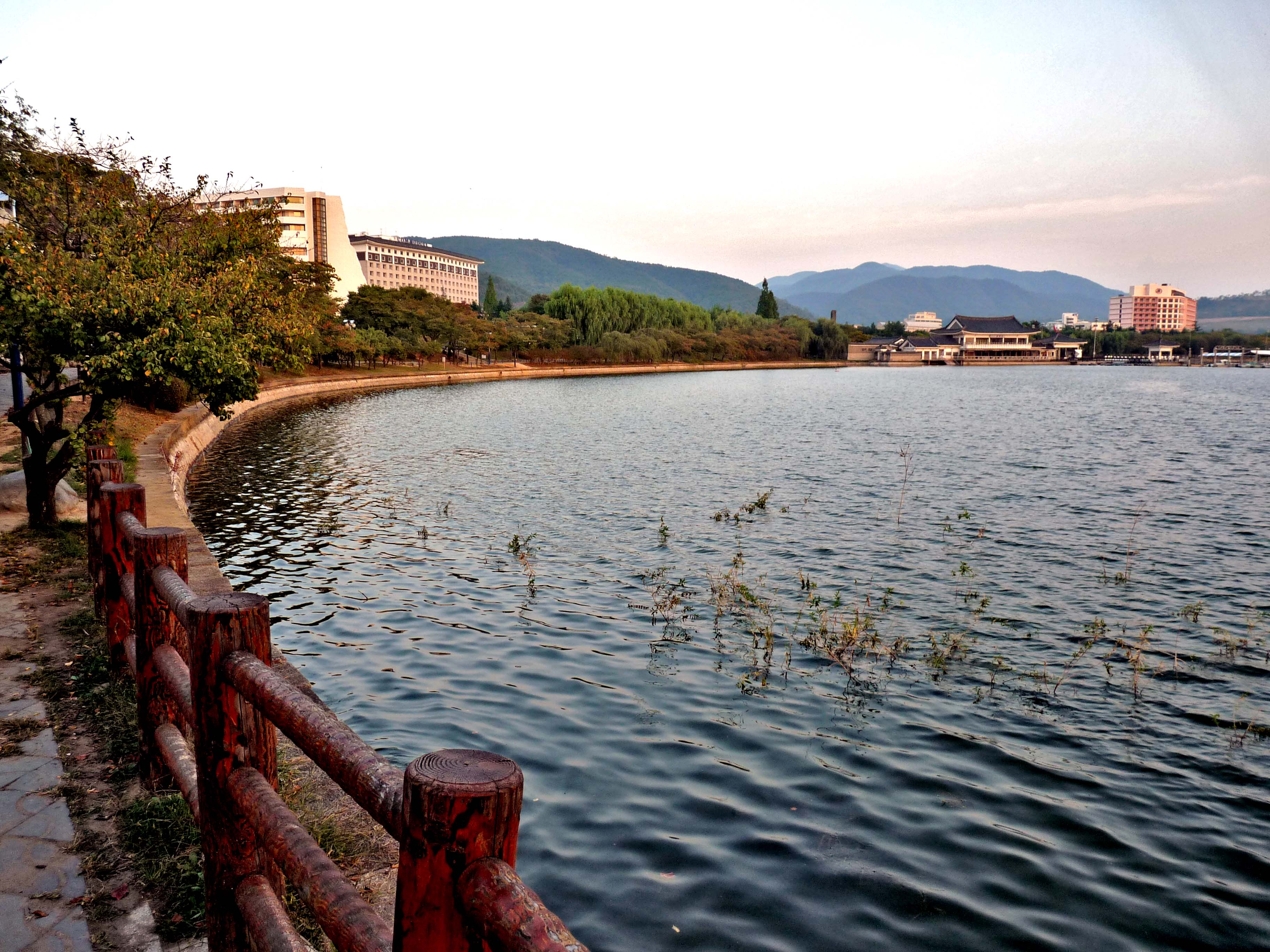 A view of Bomun Lake in Bomun Lake Resort, Gyeongju, North Gyeongsang province, South Korea